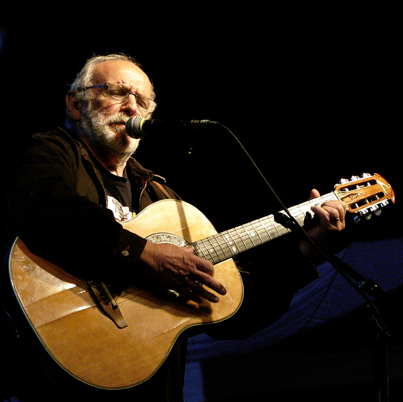 Occitan singer-songwriter Martí, performing after the Anem Òc 2009 demonstration in Carcassone. Aragonés: o cantaire occitán d'orichen aragonés Martí, en concierto en l'Anem Òc del 2009 en Carcasona.